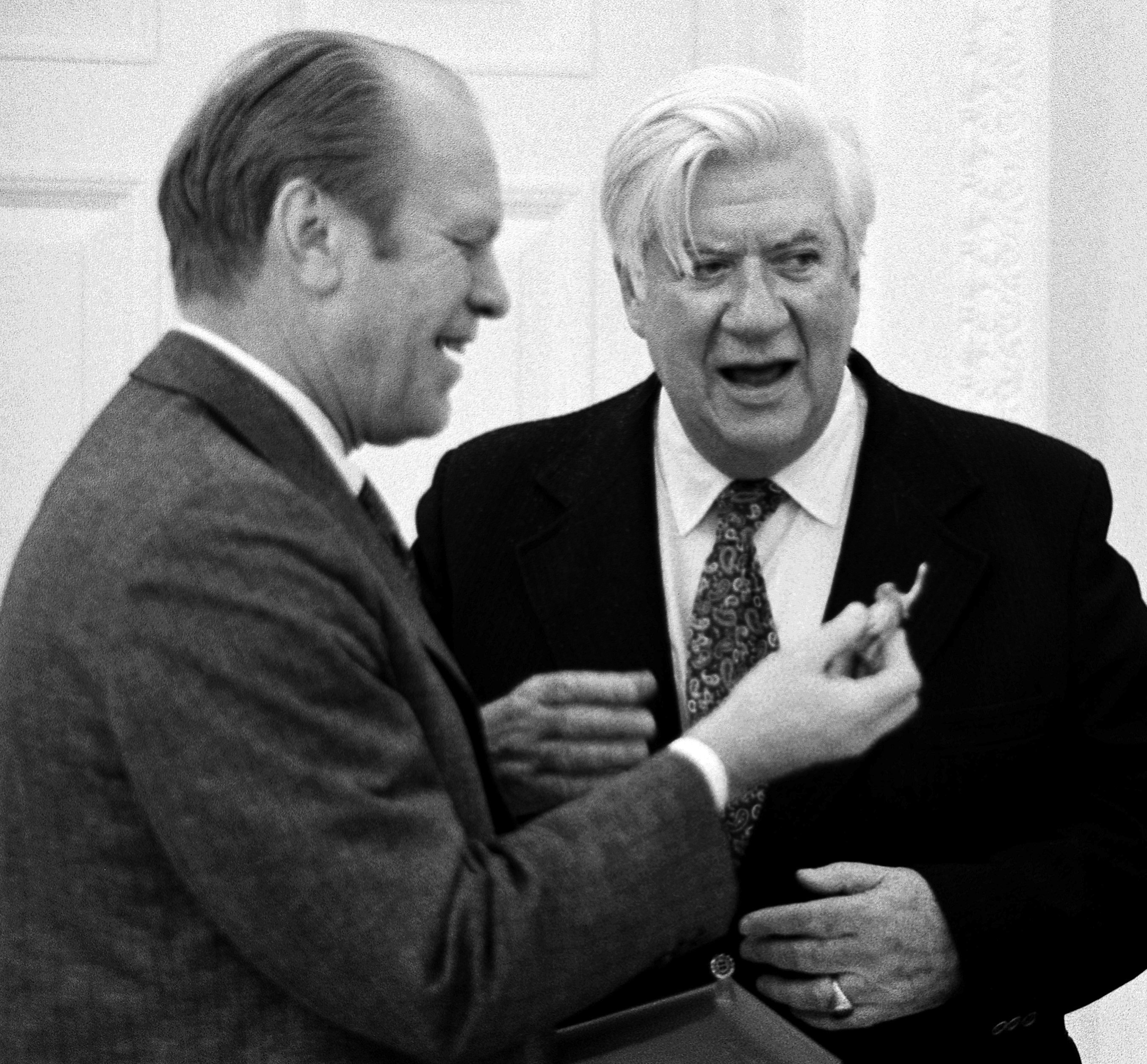 Gerald Ford meeting with Tip O'Neill at the White House.